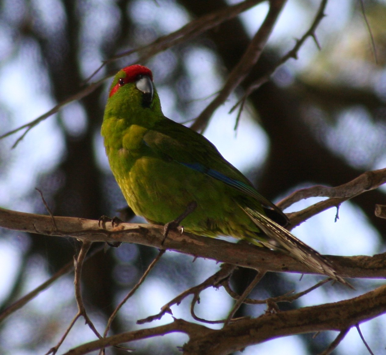 Red-crowned Parakeet Cyanoramphus novaezelandiae cropped version. Matiu/Somes Island, Wellington